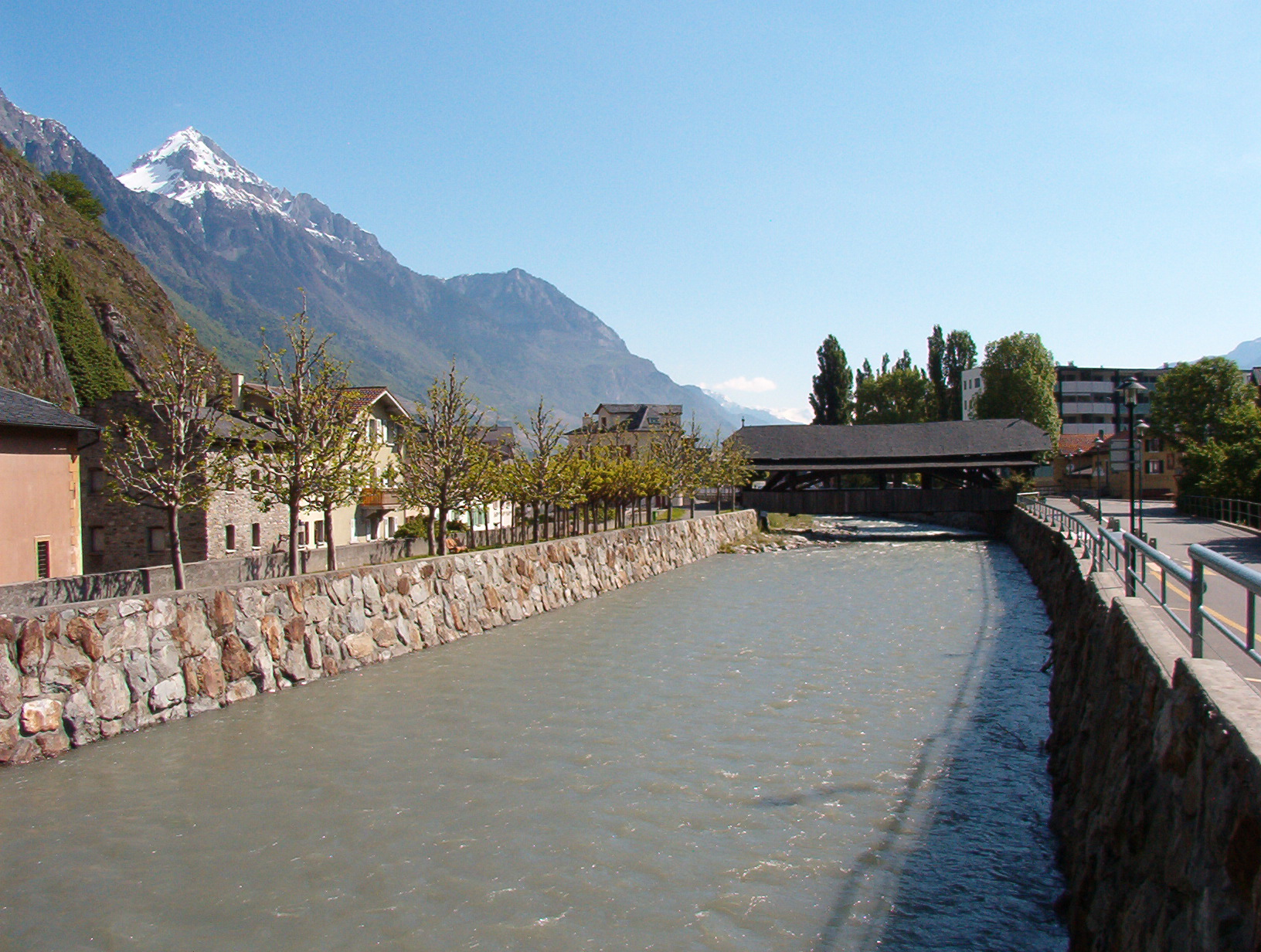 The Dranse river and the covered bridge in Martigny, Valais, Switzerland. The snowy pic on the left is the Grand Chavalard.